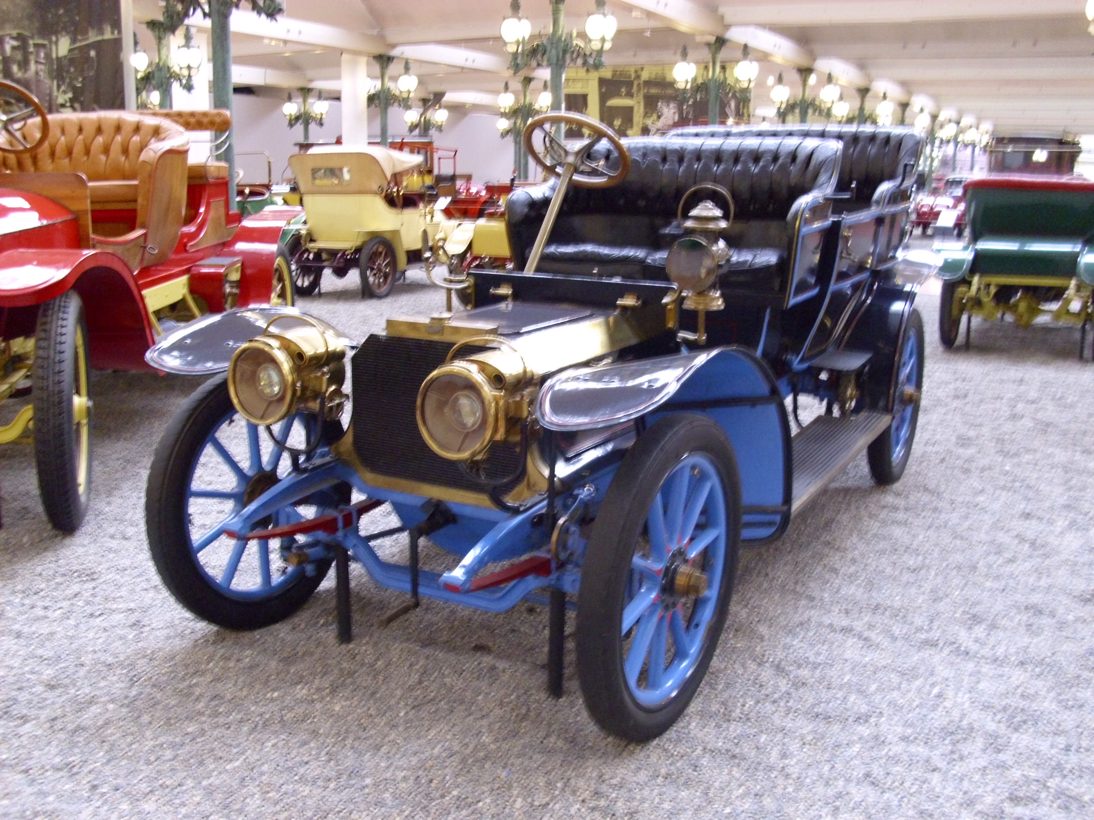 Peugeot Type 78 A 1906